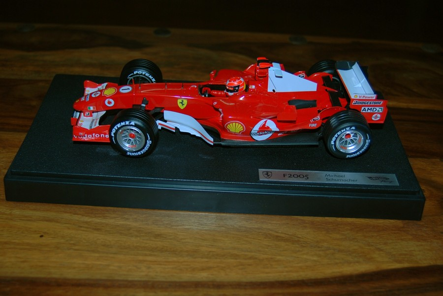 This is a photo of my scale model F2005 car